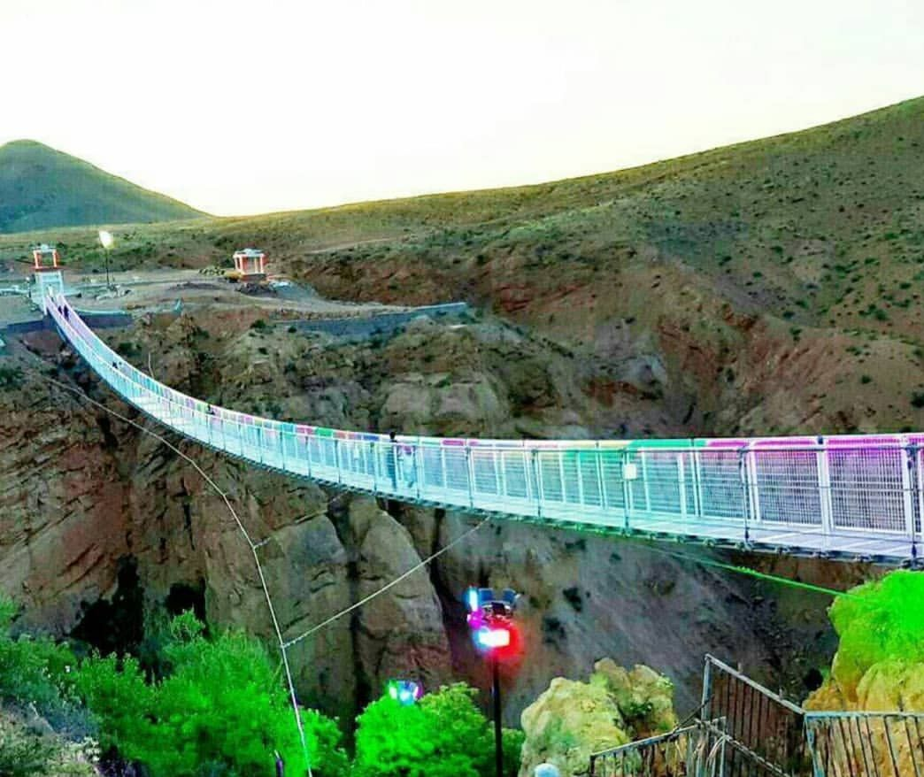 ذانتالغتنئتیبز